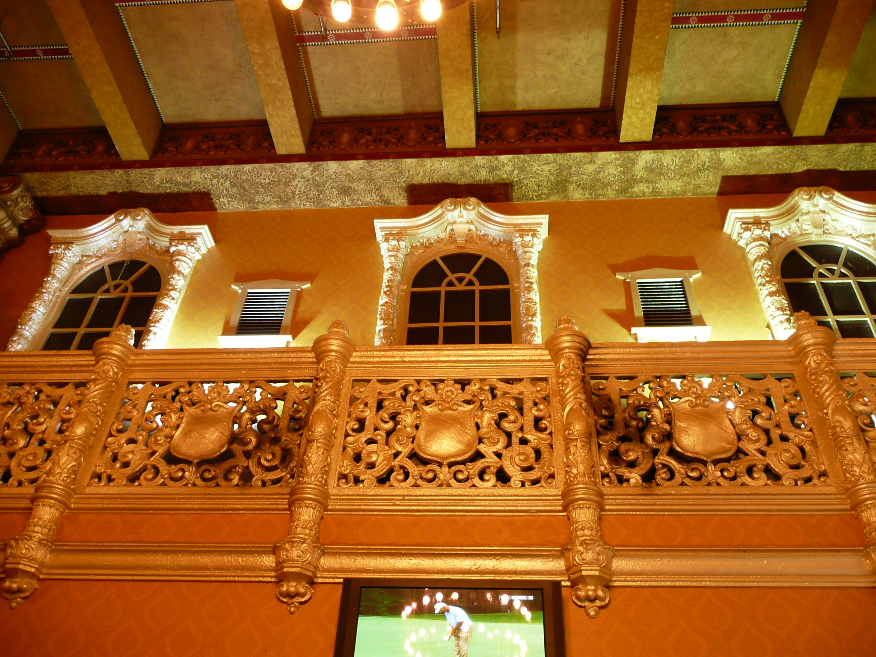 cinema, sydney